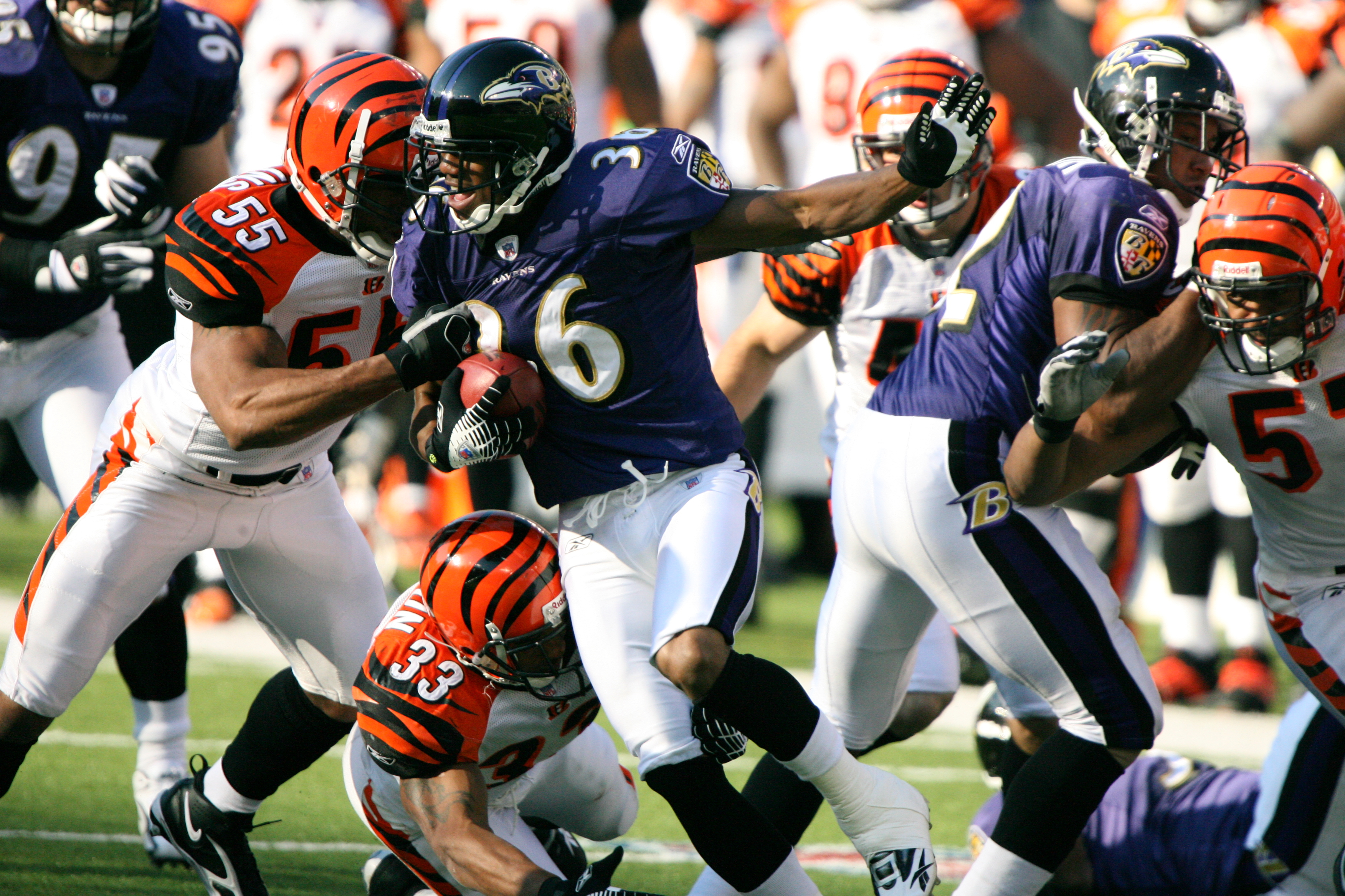 B.J. Sams running the football during the November 5, 2006 Baltimore Ravens/Cincinnati Bengals game.